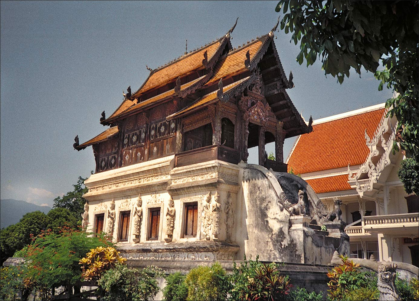 Hor Trai (library), Wat Phra Singh, Chiang Mai, own photo June 1999